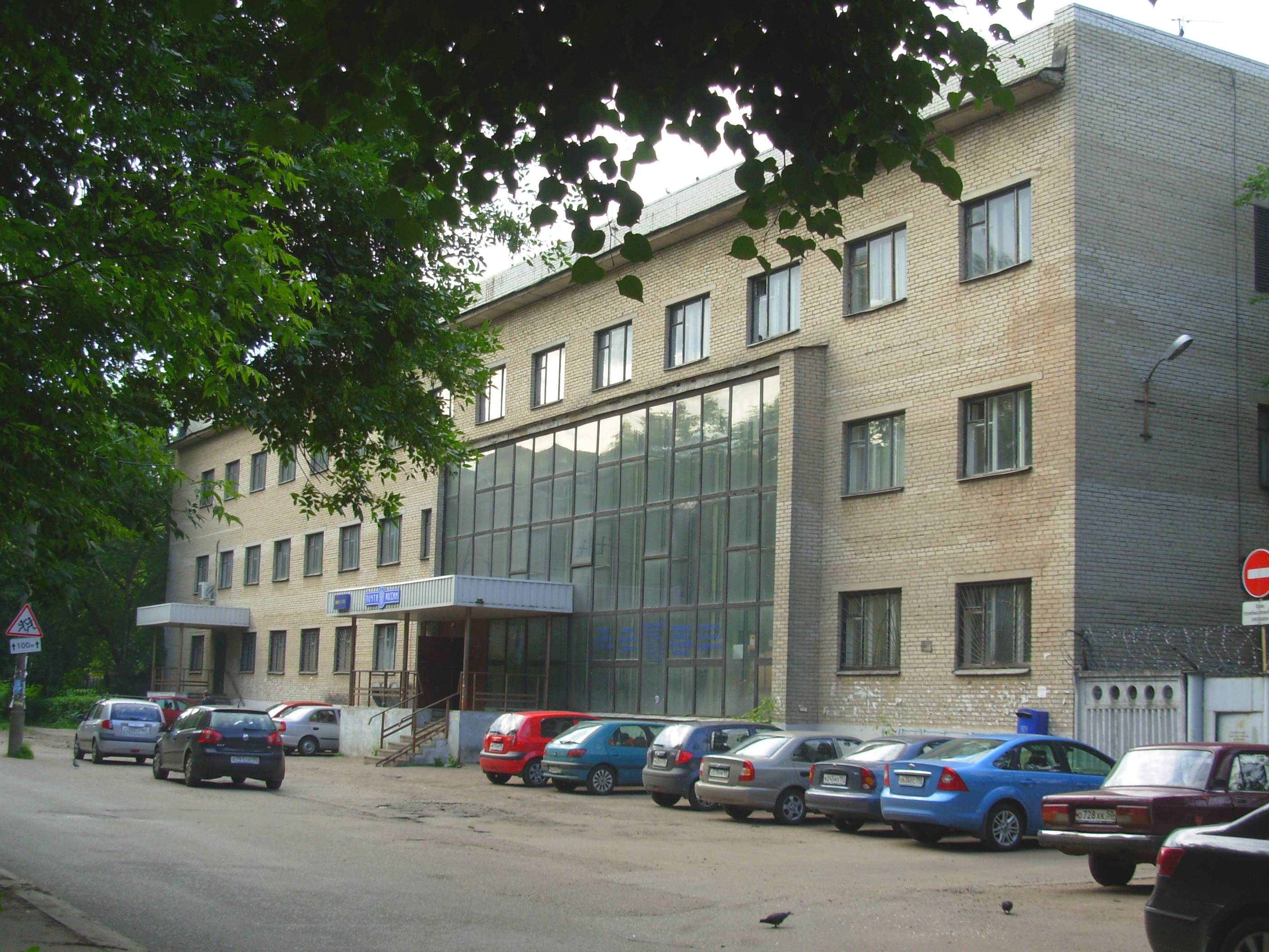 post